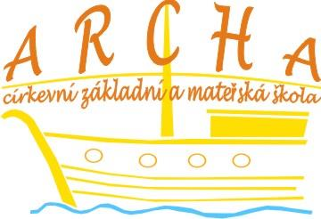 logo ZS Archa